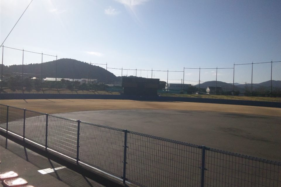 Nango Stadium, Miyazaki Japan